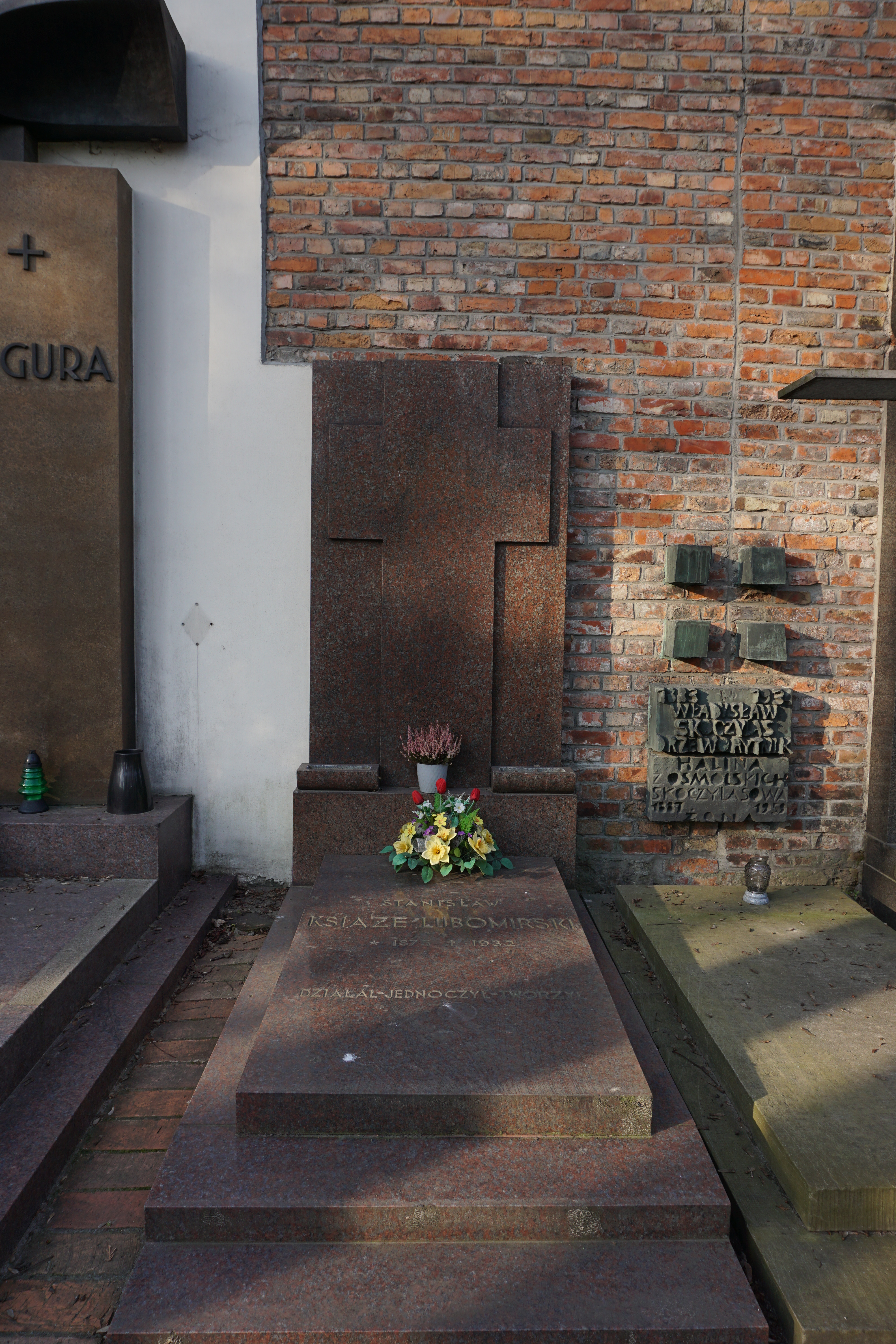 The grave of Stanisław Sebastian Lubomirski at the Powązki Cemetery (Avenue of Deserved, grave 14)